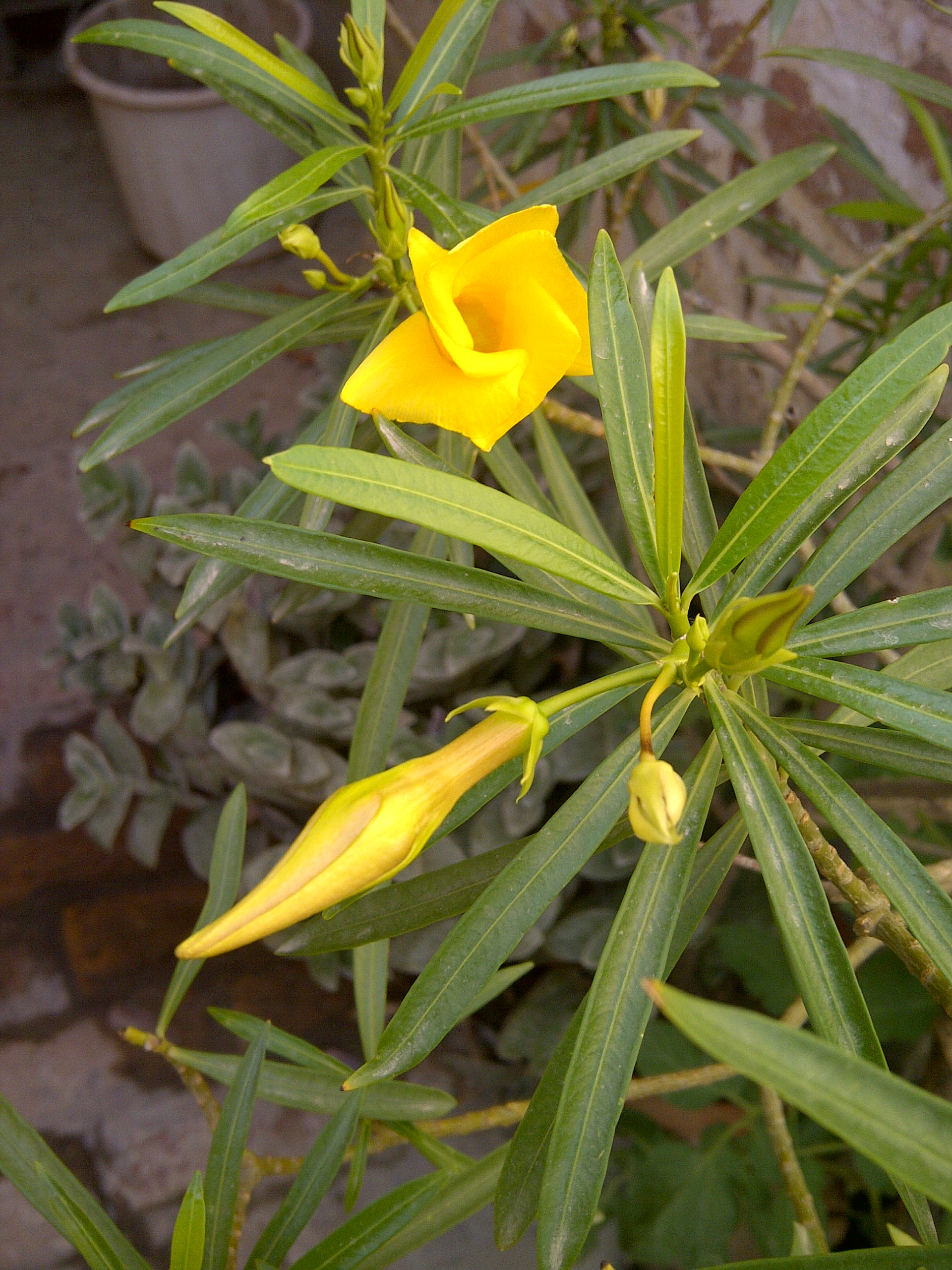 Cascabela thevetia, Kohat Pakistan